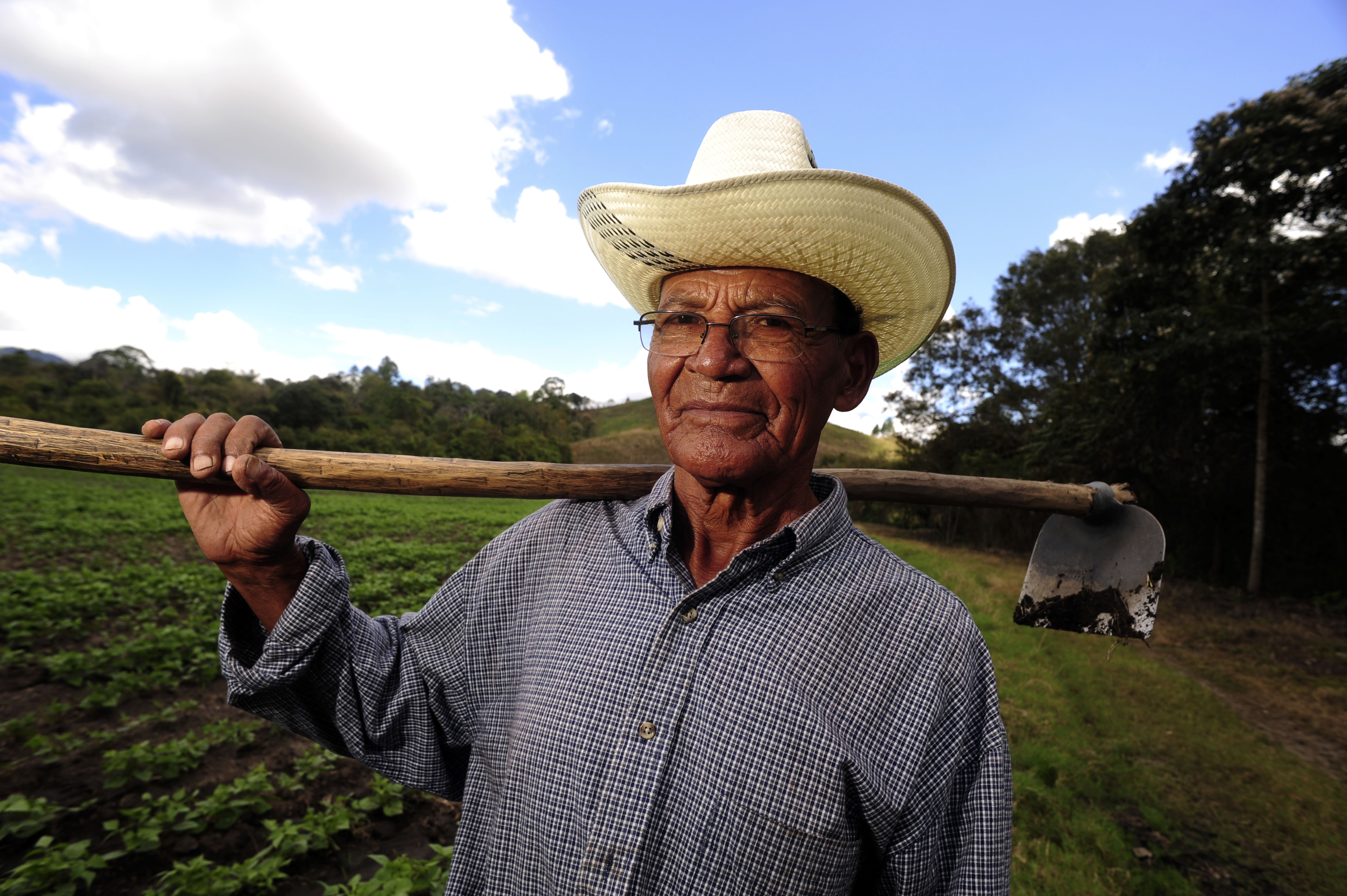 A farmer who is hosting a pilot project to use stored rainwater for irrigation of food crops during Nicaragua's intense dry season.